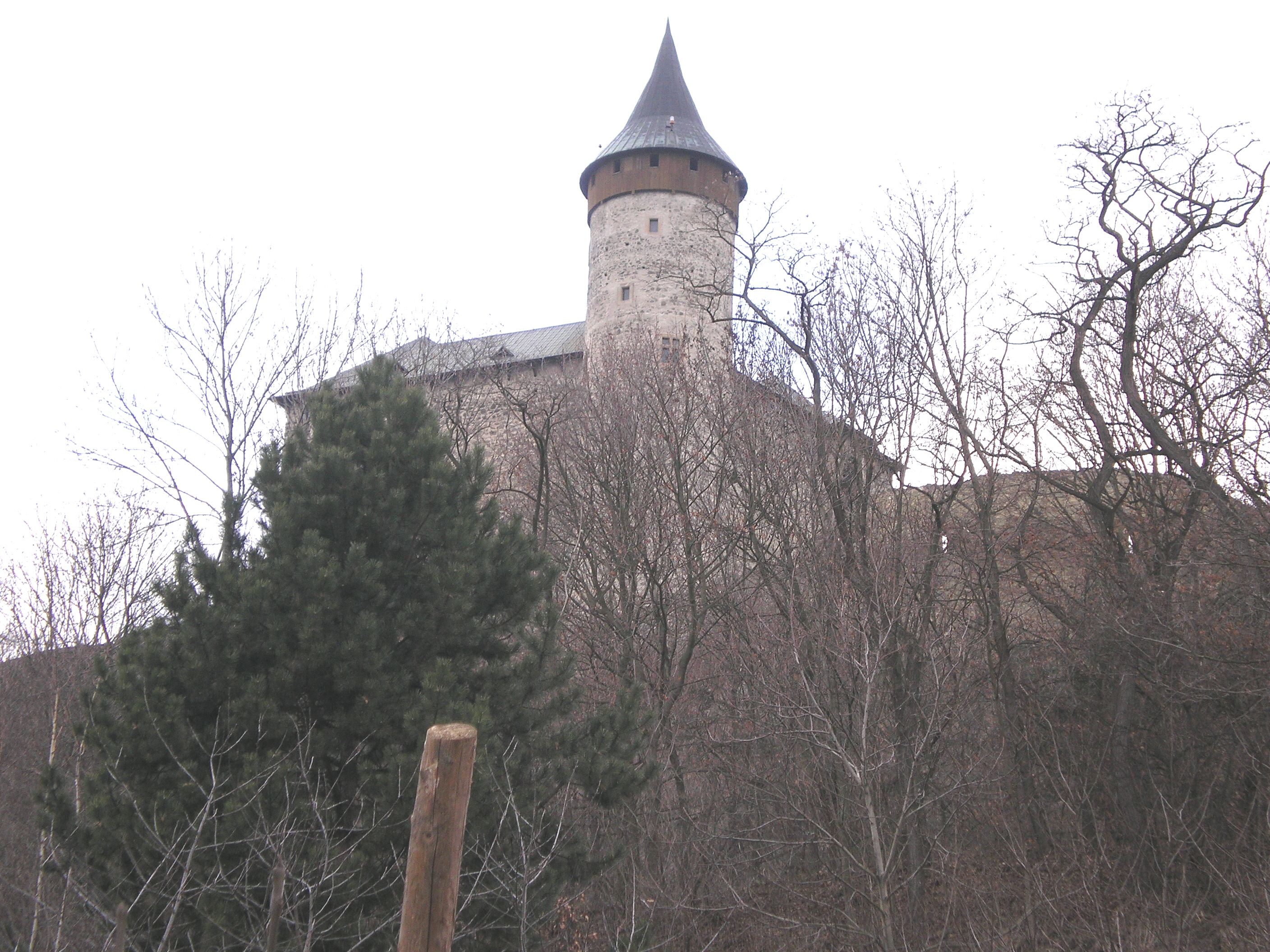 Kunětická hora castle11